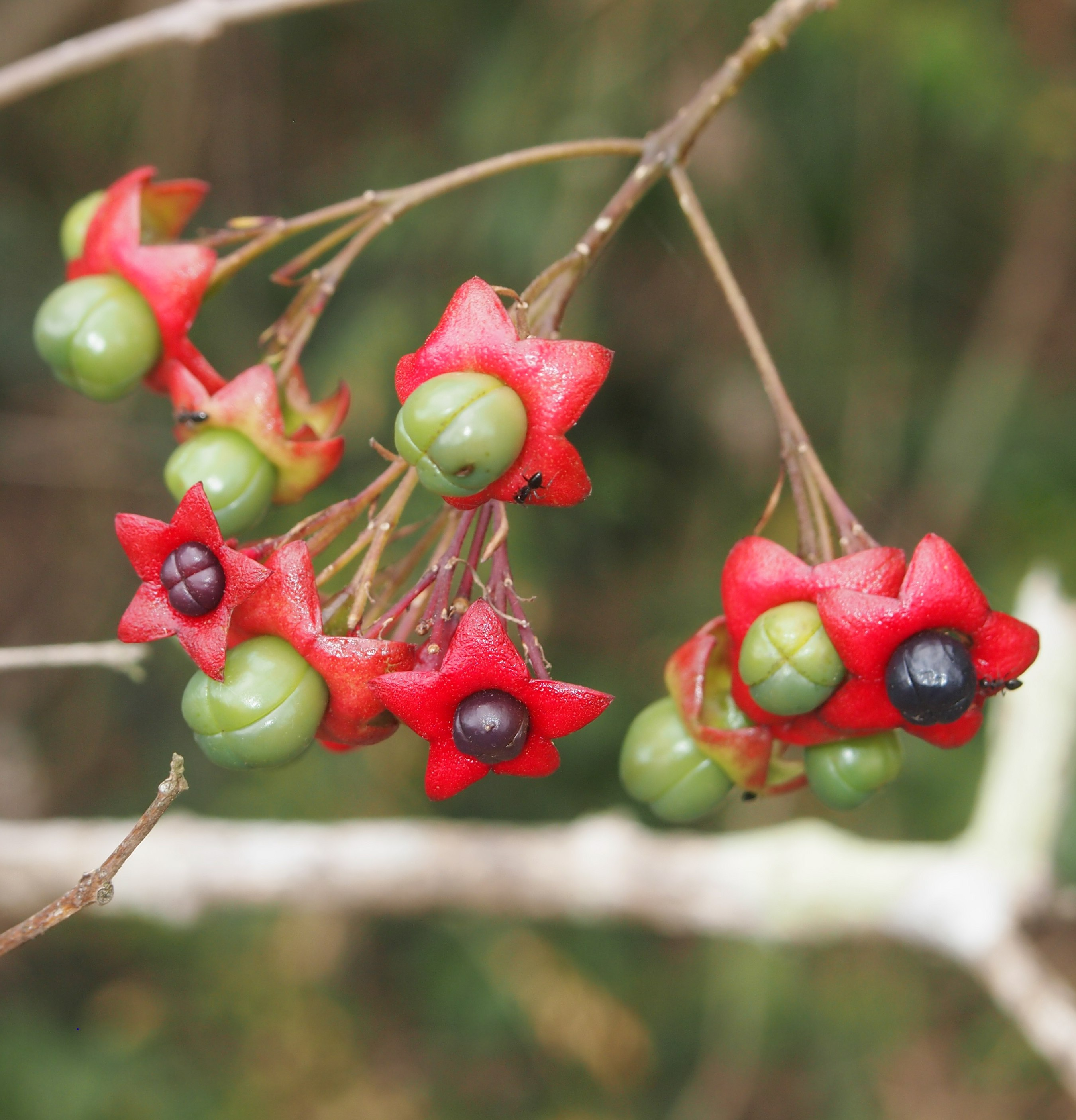 Clerodendrum floribundum fruit